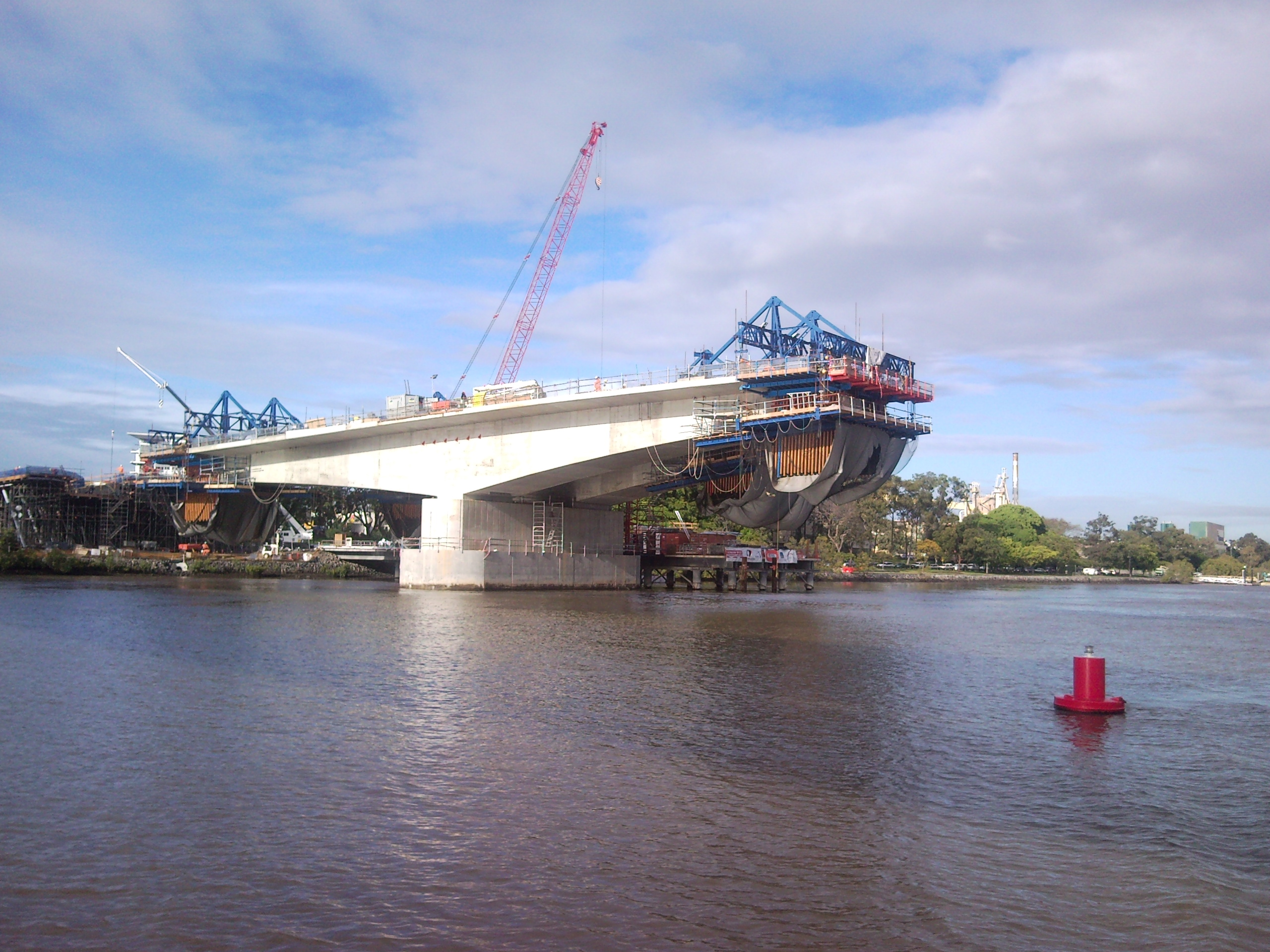 Go Between Bridge construction